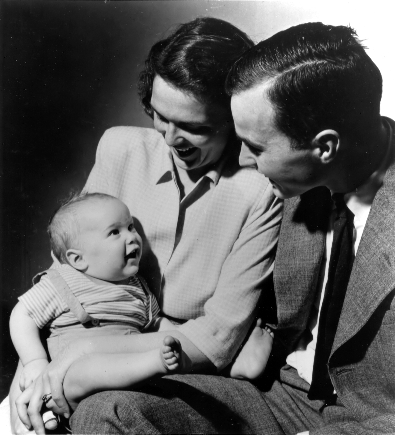 George and Barbara Bush with their first born child George W. Bush, while Bush was a student at YaleTiếng Việt: Ảnh chụp hai vợ chồng George H. W. Bush năm 1947, lúc còn là sinh viên tạ̣i Đại học Yale, và con trẻ mới sinh, George W. Bush, mà sau này cả cha và con đều trở thành Tổng thống Hoa Kỳ.